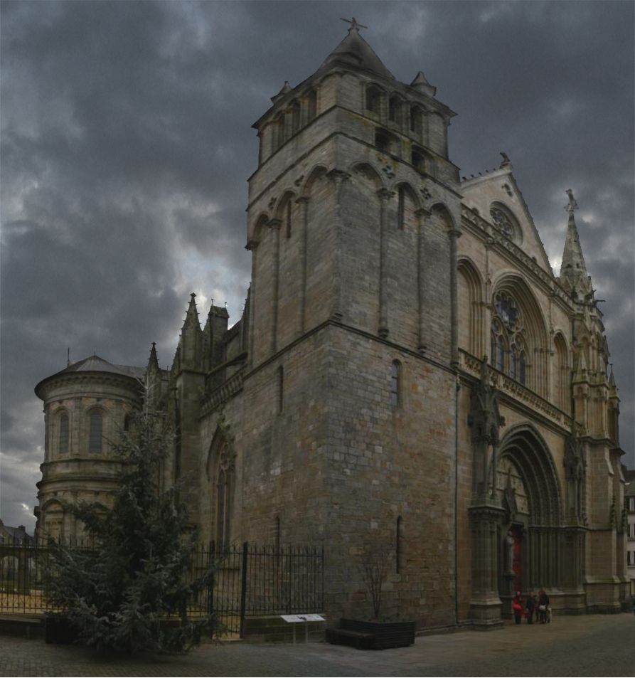 The Cathedral St. Peter and St. Patern of Vannes, France, commonly called the Cathedral of Vannes.